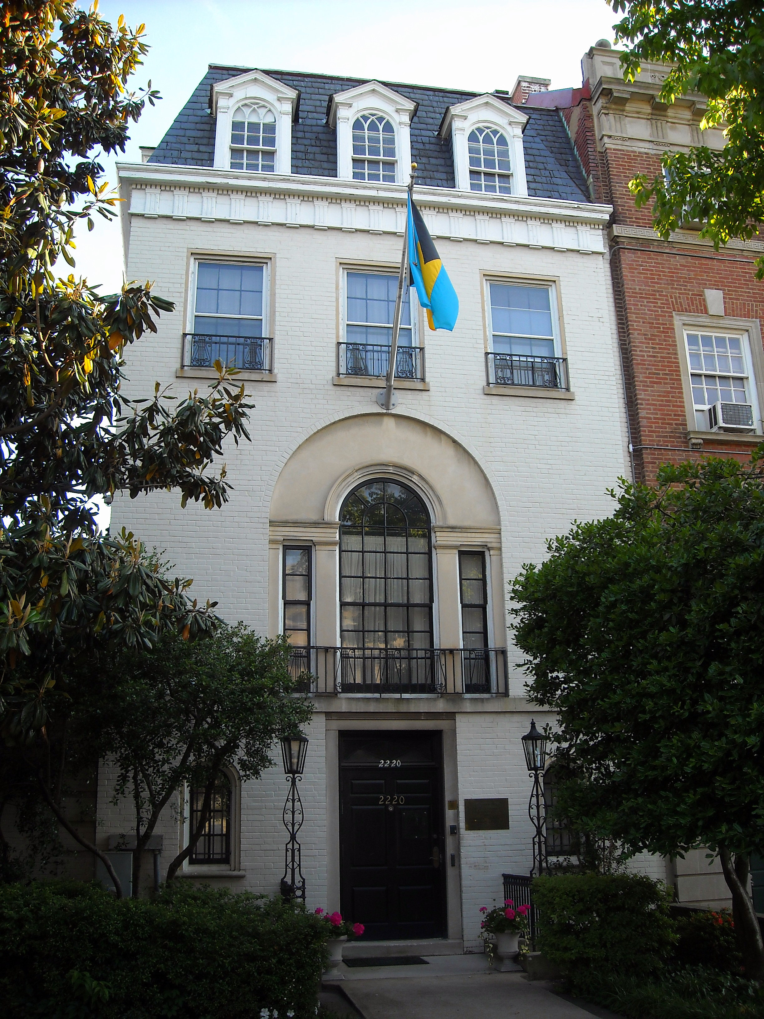 The Embassy of the Bahamas at 2220 Massachusetts Avenue, NW in Washington, D.C. The building is located on Embassy Row, between Dupont Circle and Sheridan Circle.